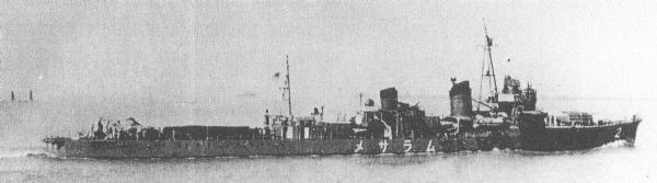 Imperial Japanese Navy destroyer Murasame(II), Shitatusyu-class, at Yangtze River (presumption).